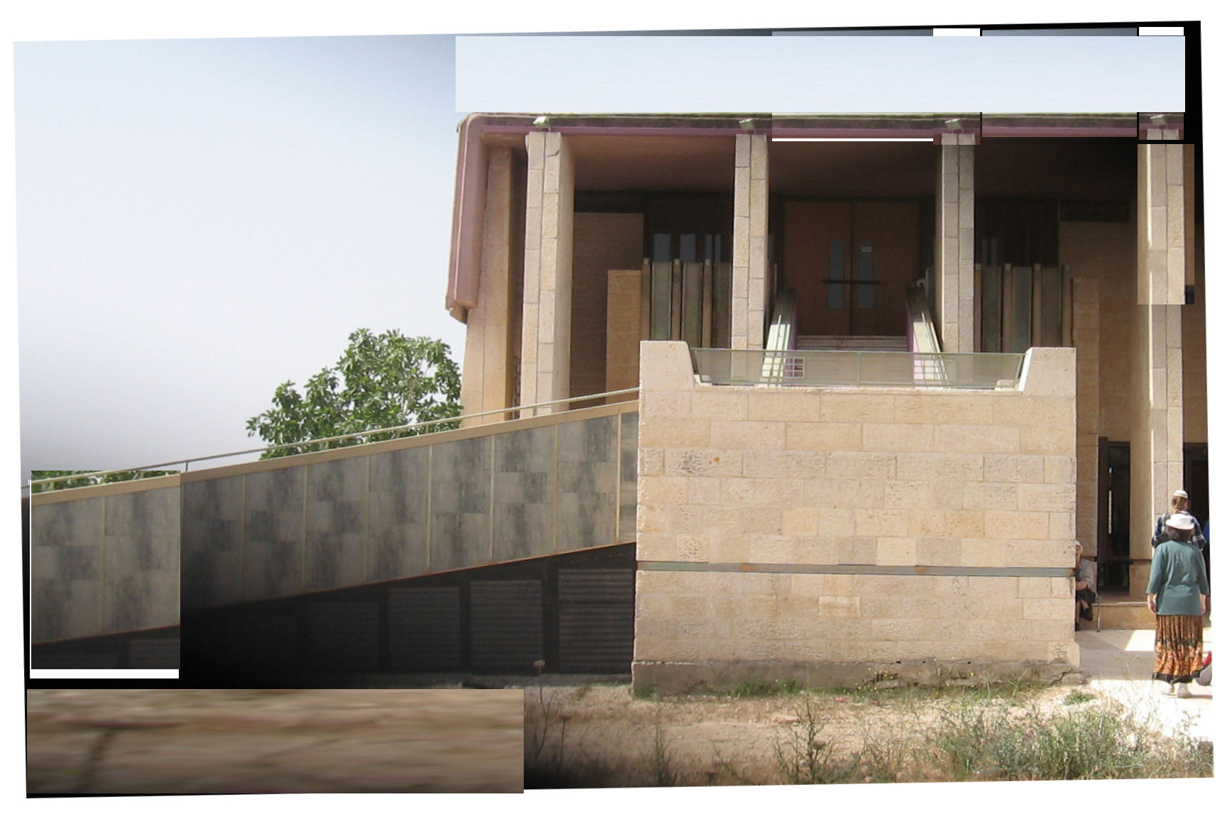 Synagogue_of_new_SHILO as MISCAN 1